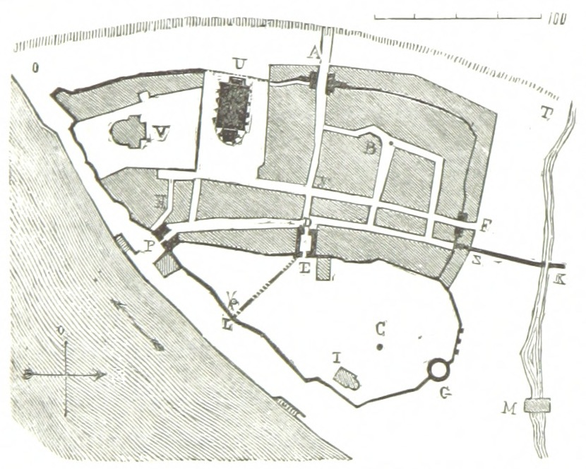 View this map on the BL Georeferencer service. Image taken from: Title: "La Guienne Militaire. Histoire ... des villes fortifiées, ... et chateaux construits ... pendant la domination Anglaise" Author: DROUYN, Léon. Shelfmark: "British Library HMNTS 10170.k.12." Volume: 01 Page: 412 Place of Publishing: Bordeaux [printed, and] Date of Publishing: 1865 Issuance: monographic Identifier: 000985390 Explore: Find this item in the British Library catalogue, 'Explore'. Download the PDF for this book (volume: 01) Image found on book scan 412 (NB not necessarily a page number) Download the OCR-derived text for this volume: (plain text) or (json) Click here to see all the illustrations in this book and click here to browse other illustrations published in books in the same year. Order a higher quality version from here.